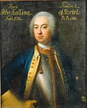 Portrait of Count Pehr Kalling (1700-1795), oil painting done by the artist Lorens Pasch the Elder (1702-1766) in 1729. Dimensions 81 x 65 cm.